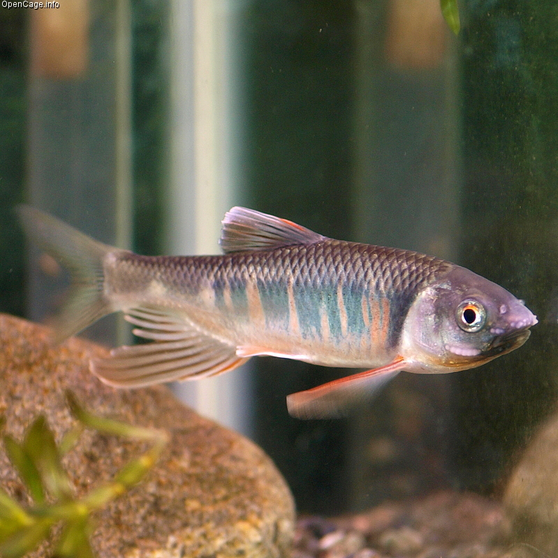 Zacco platypus